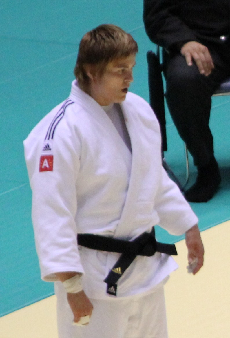 Belgian judoka Catherine Jasques during the 2010 World Judo Championships held in Tokyo, Japan